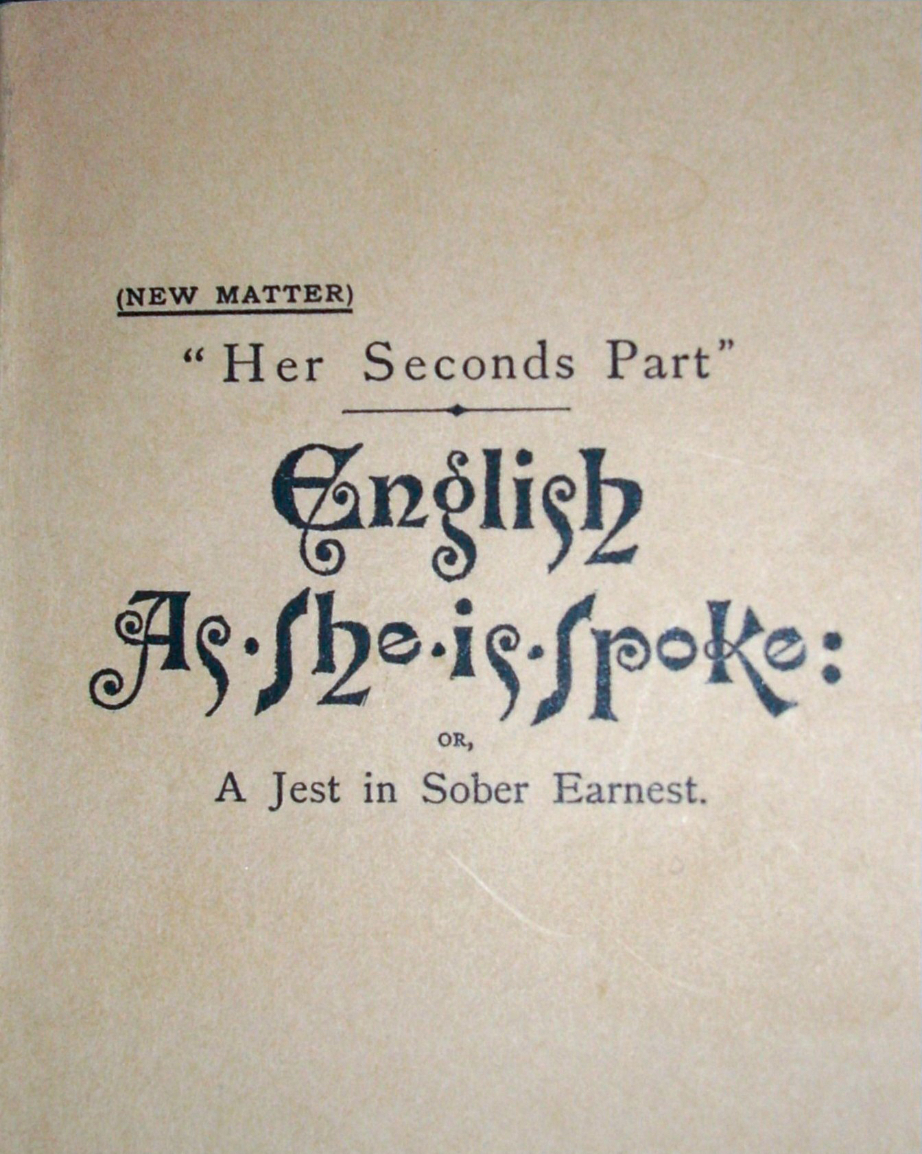 Book cover